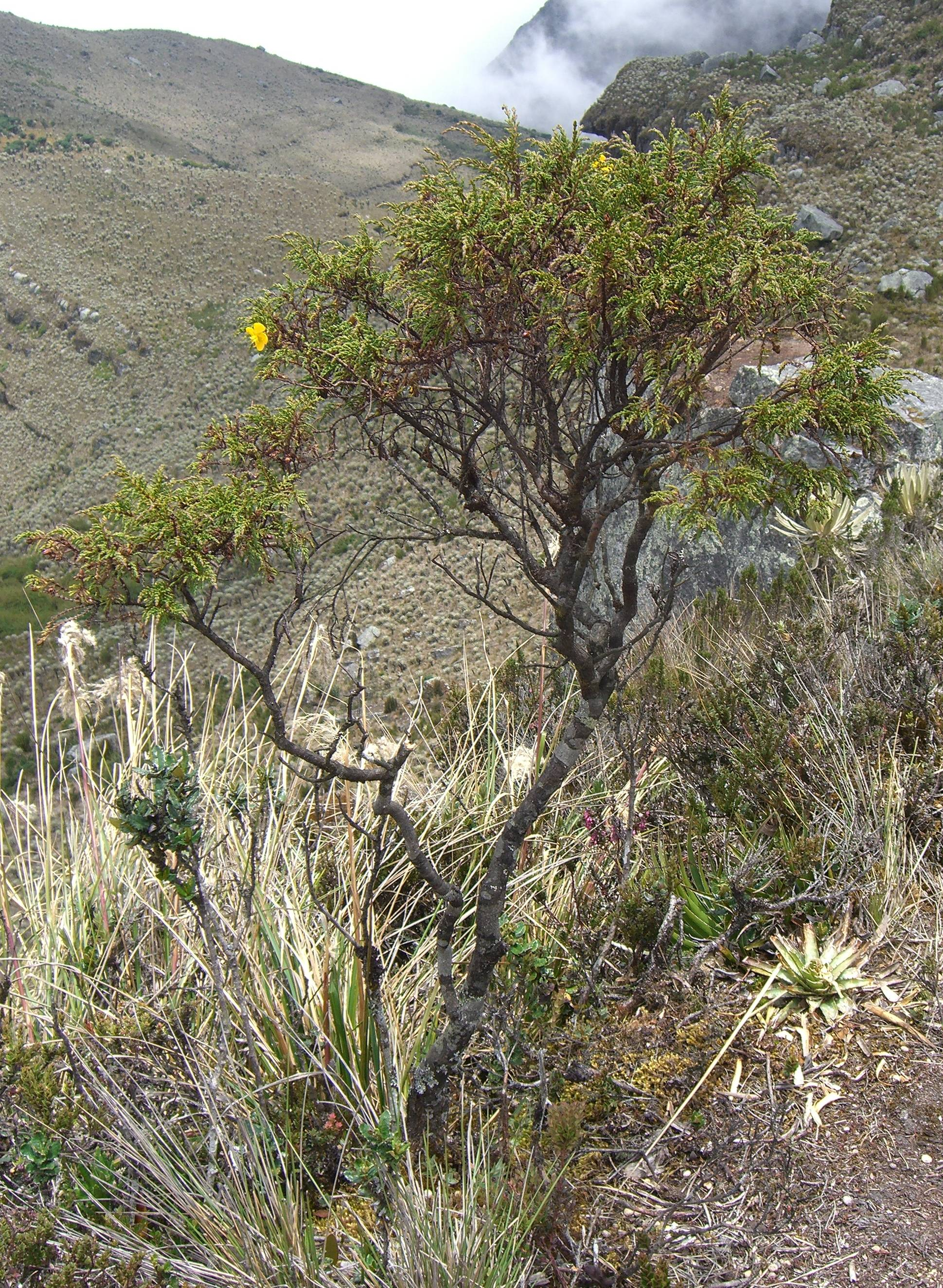 Please report references to .